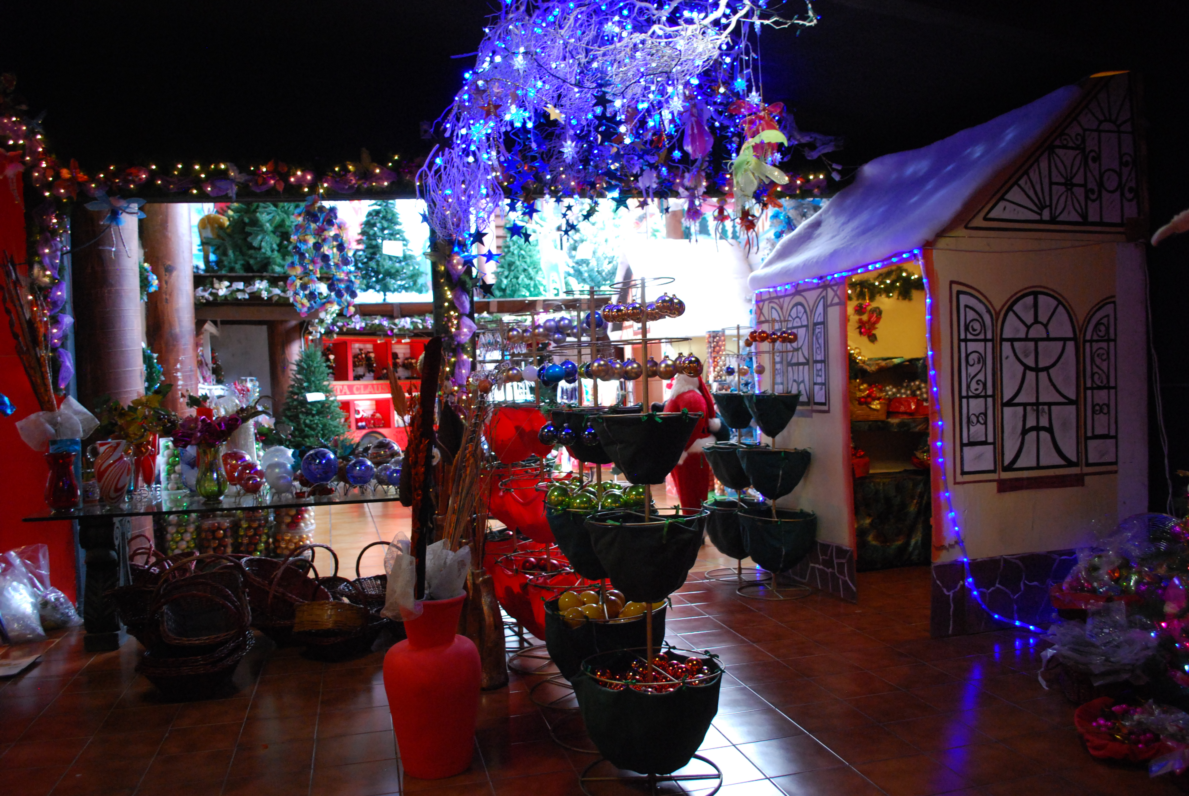 View of the La Casa de Santa Claus Christmas store in Tlalpujahua, Michoacan